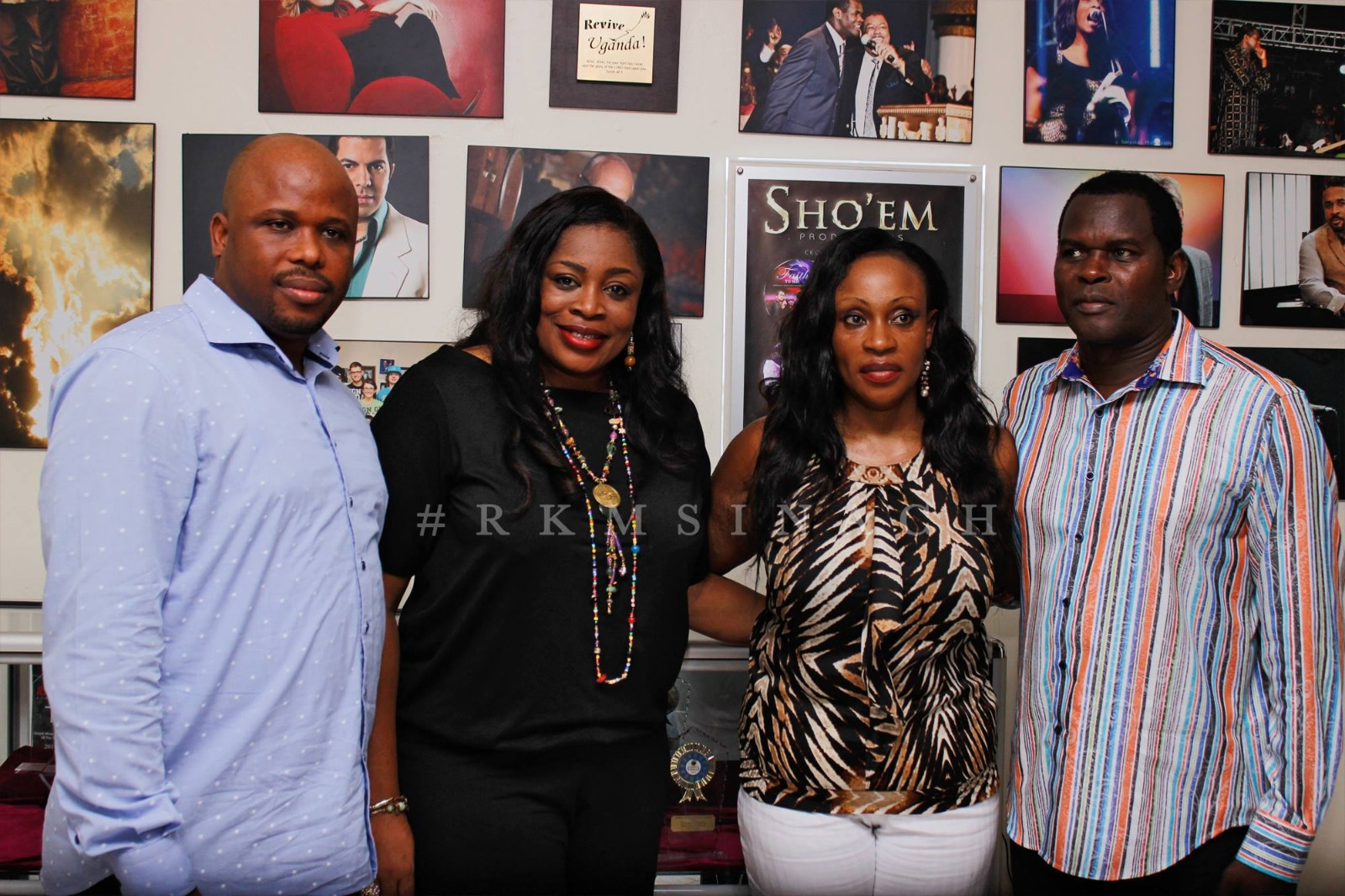 Robert Kayanja